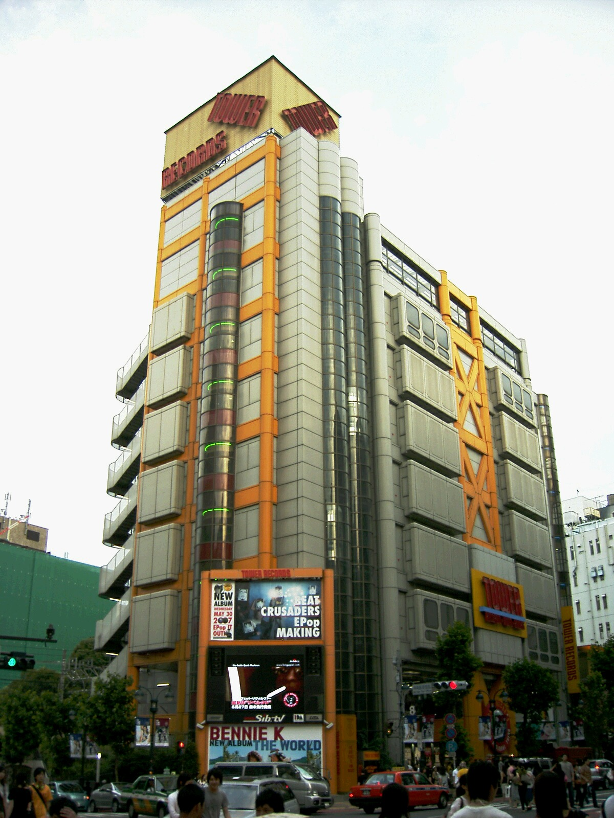 TowerRecords_Shibuya